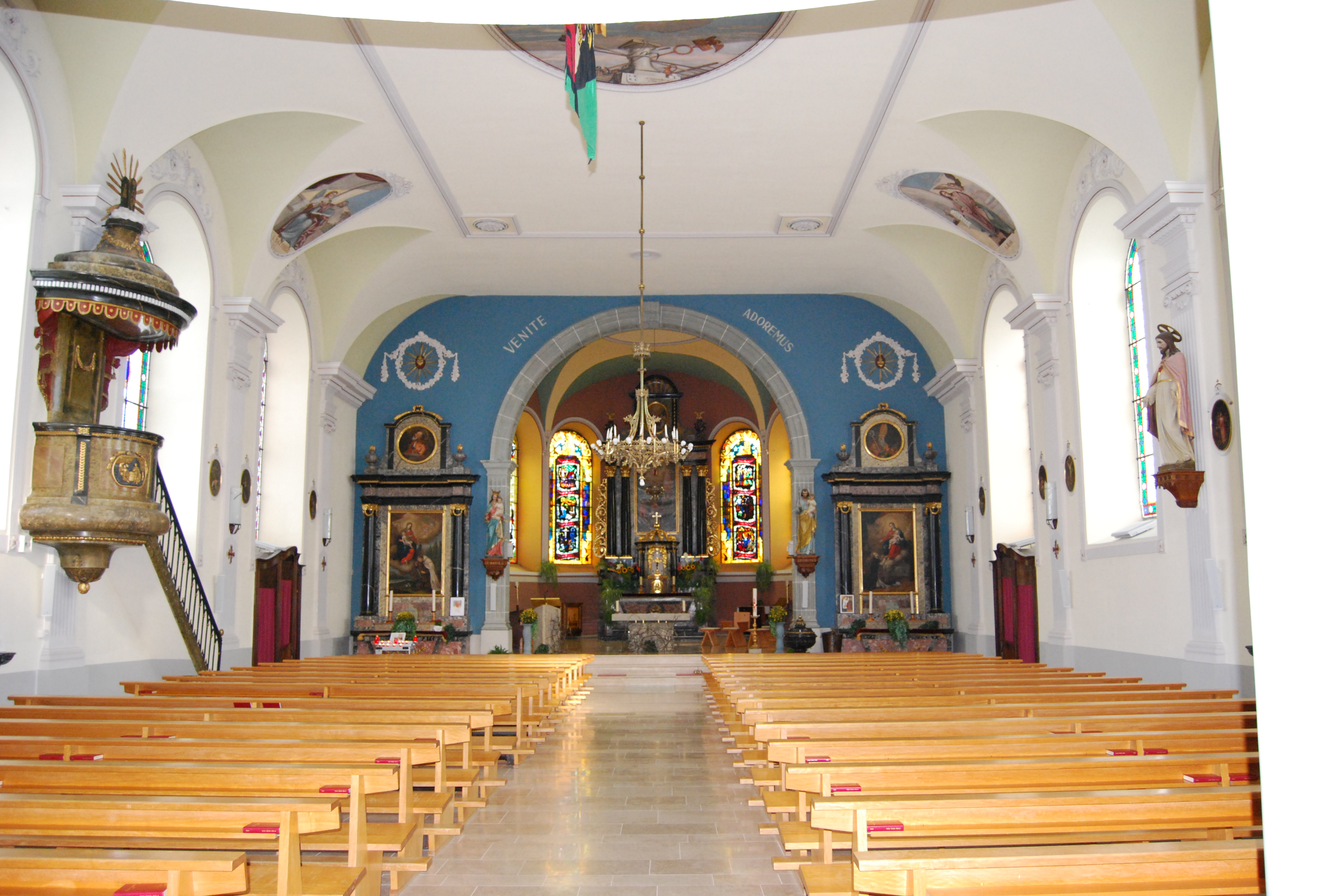 Catholic Church of Autigny, canton of Fribourg, Switzerland